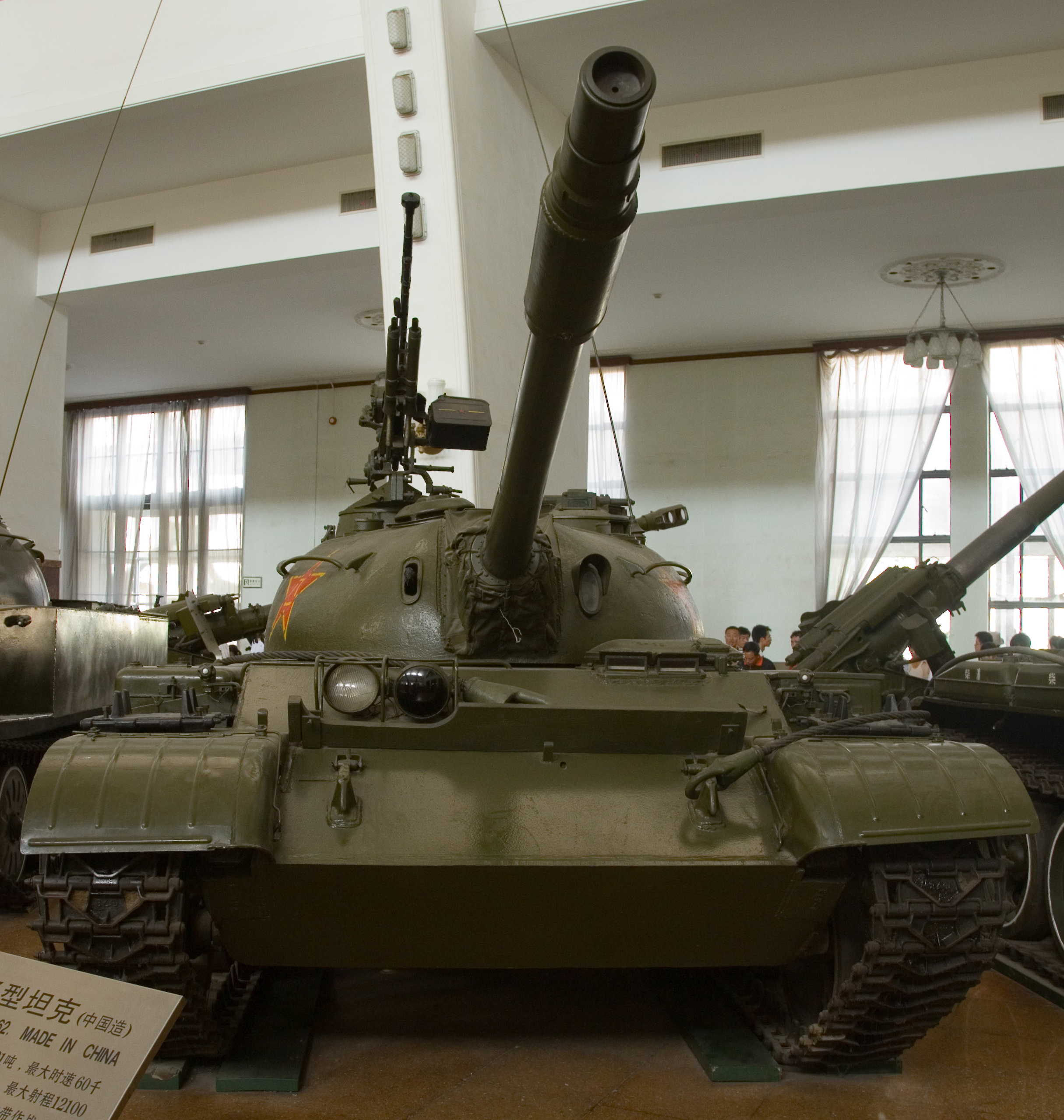 A Chinese Type 62 tank at the Beijing military museum